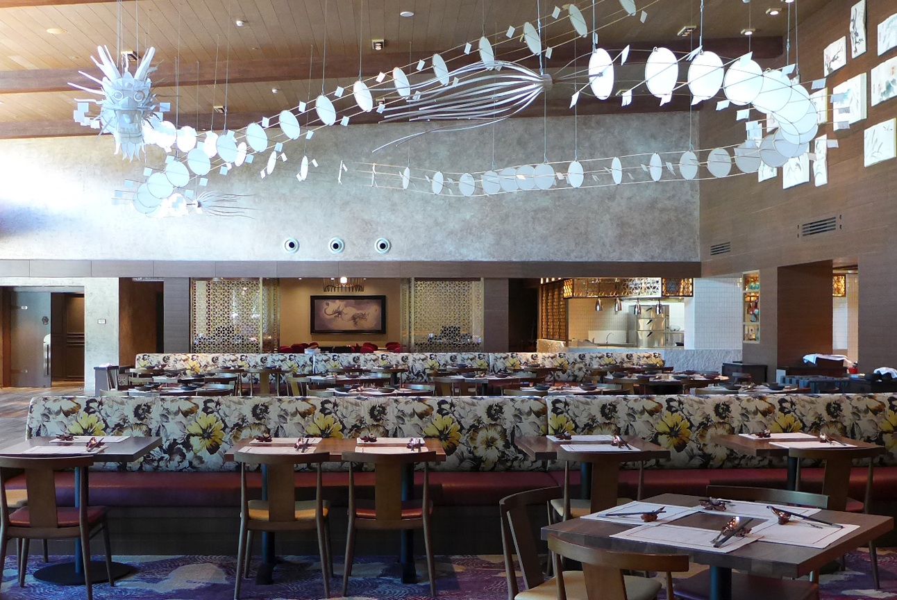 Disney Explorers Lodge Dragon Wind